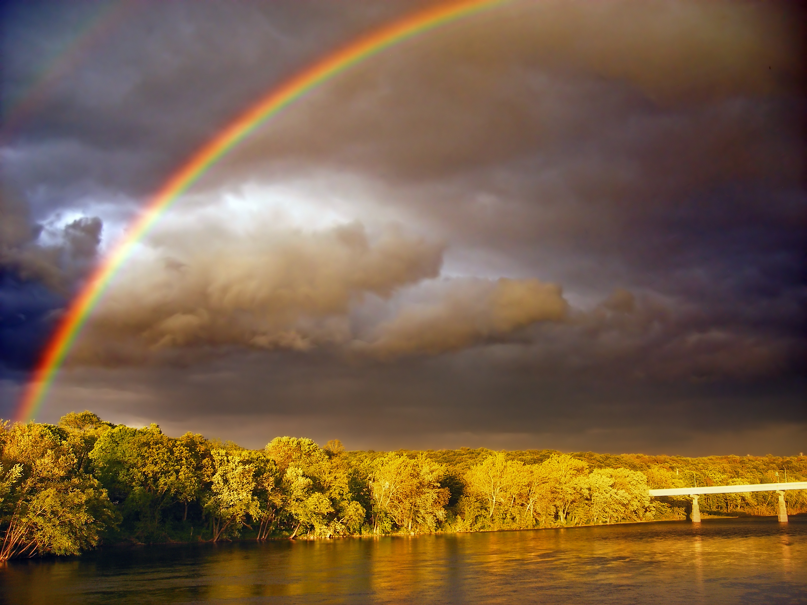 Rainbows and departing storm clouds, Delaware River, Northampton County–Warren County line.